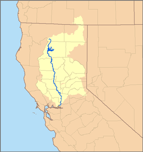 This is a map of the Sacramento River watershed — in Northern California. I, Pfly, made it, based on USGS data.